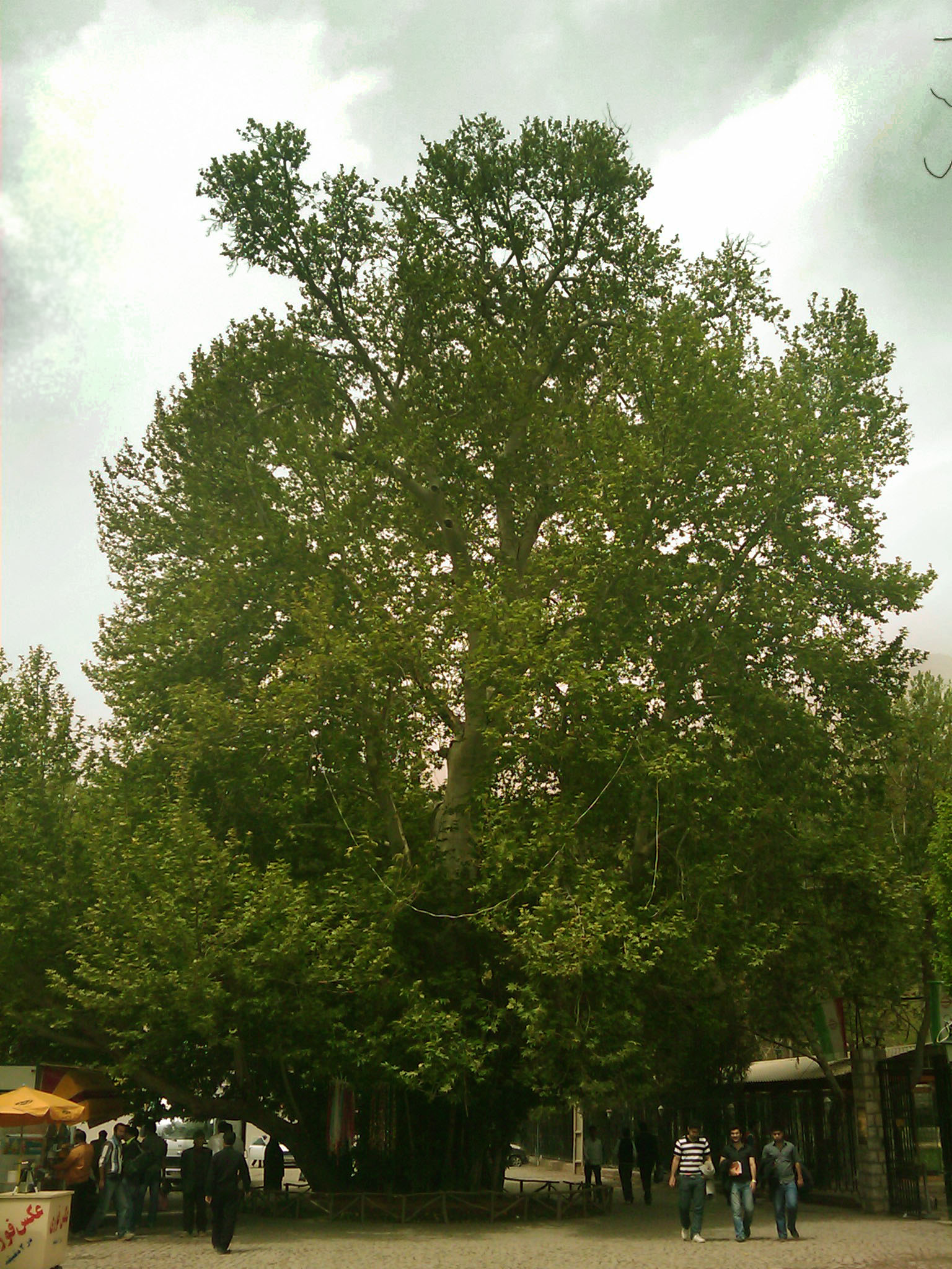 Rahmat Tree, biggest Tree in kermanshah city, kermanshah province, iran, Earth